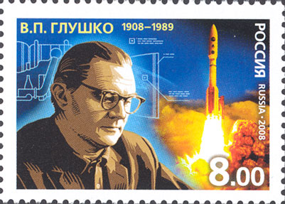 Stamps of Russia. The 100th birth anniversary of scientist V.P.Glushko (1908-1989), 2008